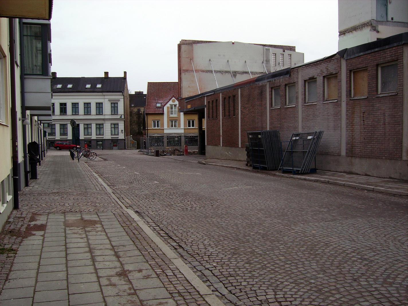 Laboratoriegatan in Lund, Sweden